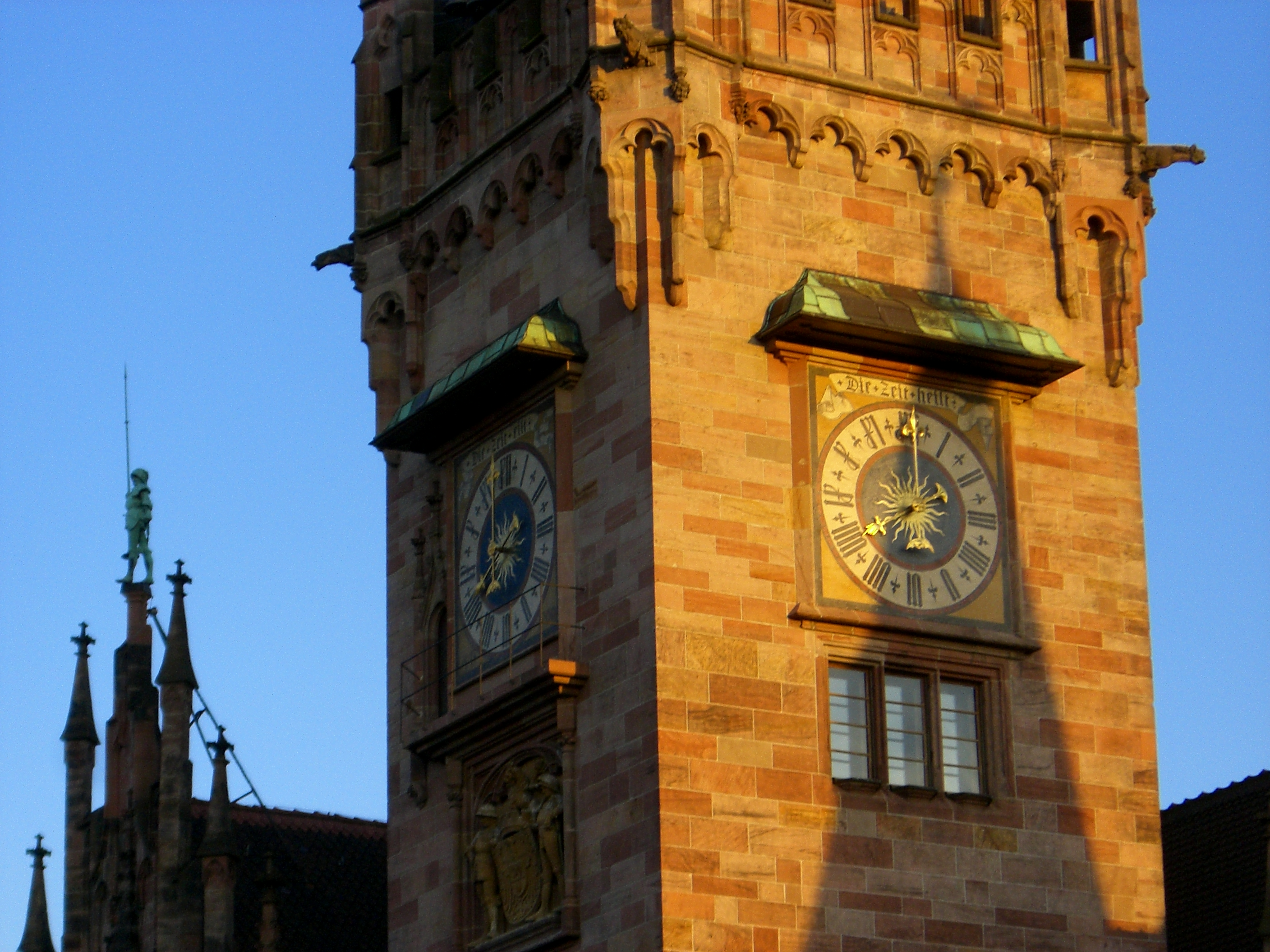 Town Hall Detail